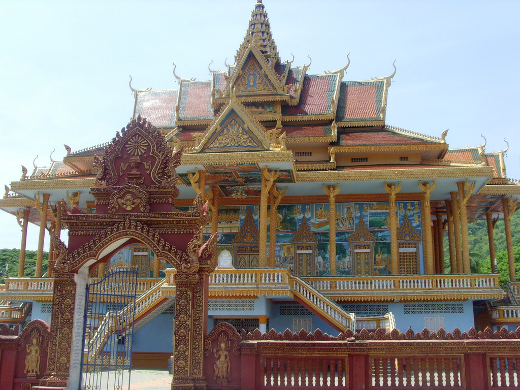 Wat Ek Phom near Battambang in September 2006.